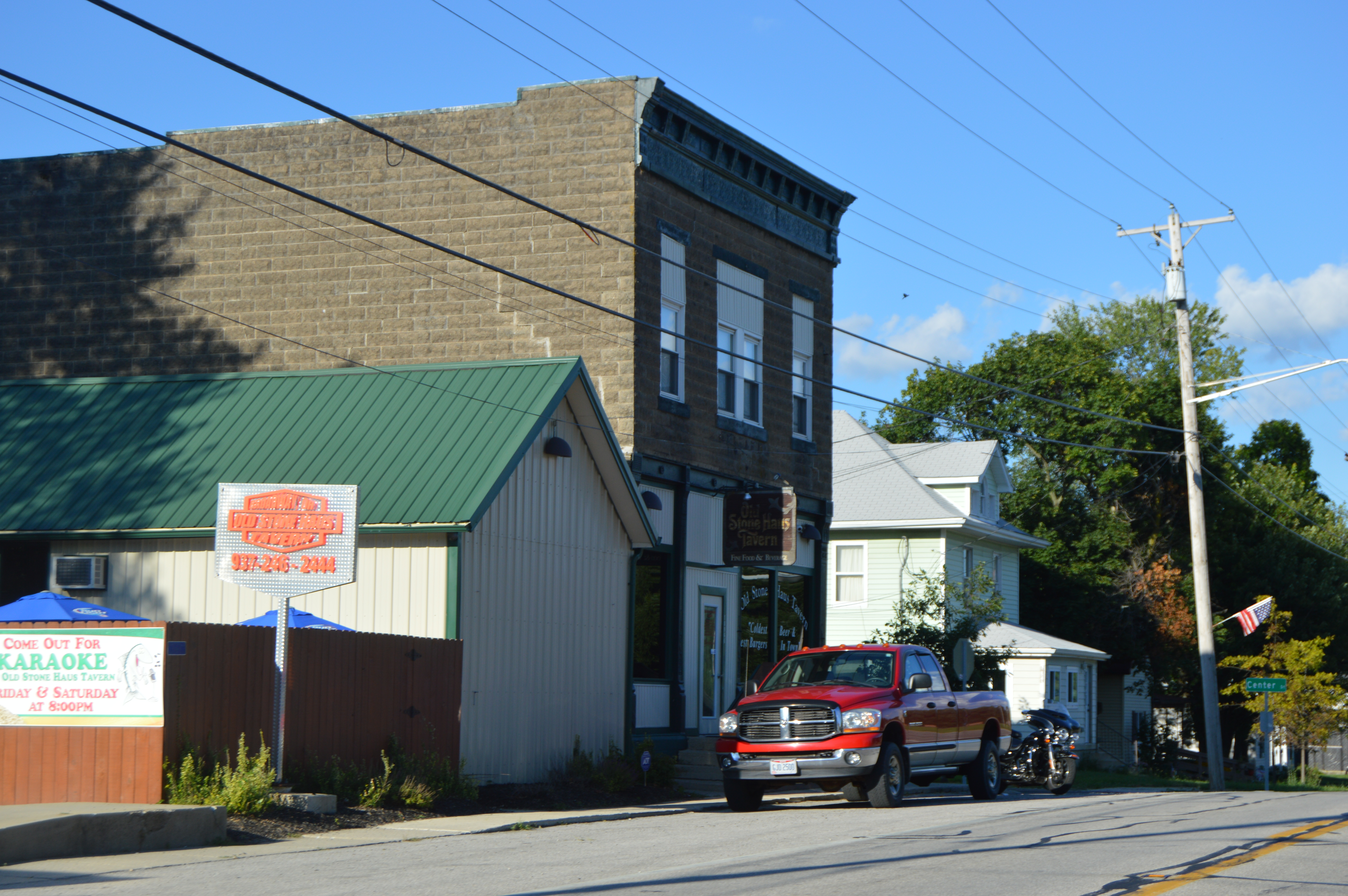 Commercial building and house on the northern side of Main Street (State Route 347) at the Center Street intersection in Broadway, Ohio, United States.